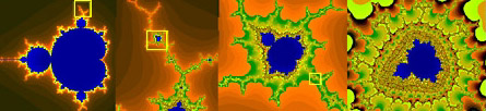 Zooming in the Mandelbrot set - Quasi-self-similarity